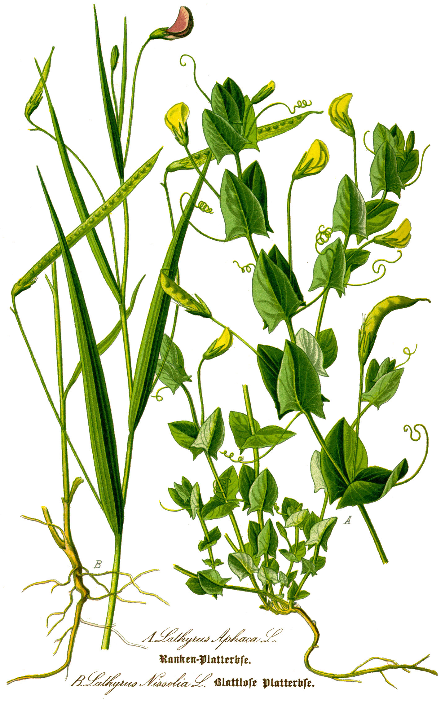 Name Lathyrus nissolia (left) - Lathyrus aphaca (right) ;Family:Fabaceae Original book source: Prof. Dr. Otto Wilhelm Thomé Flora von Deutschland, Österreich und der Schweiz 1885, Gera, Germany Permission granted to use under GFDL by Kurt Stueber